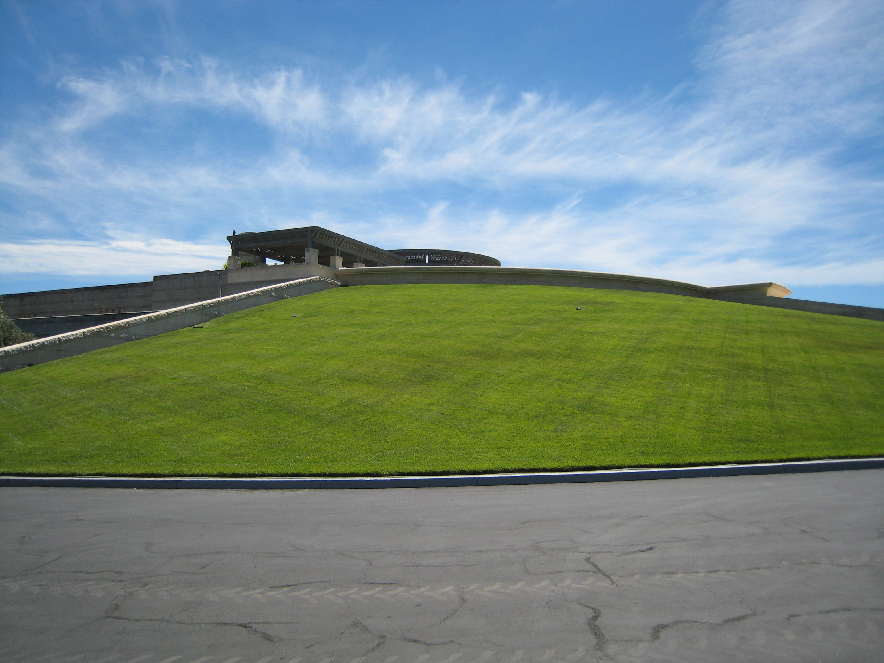 Opus One Winery in Napa Valley, California, USA